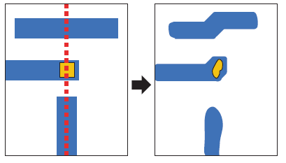 Features patterned across adjacent features are subject to stitching faults. Ref.:S-Y. Fang et al., DAC 2013 [1]